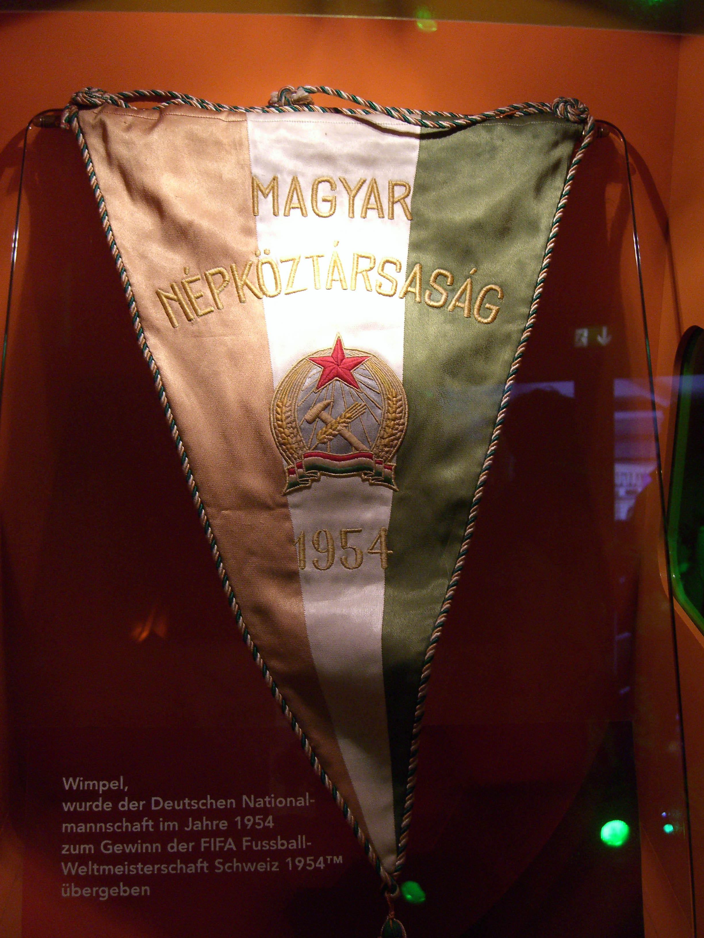 Hungarian pennant of the Fifa WorldCup 1954